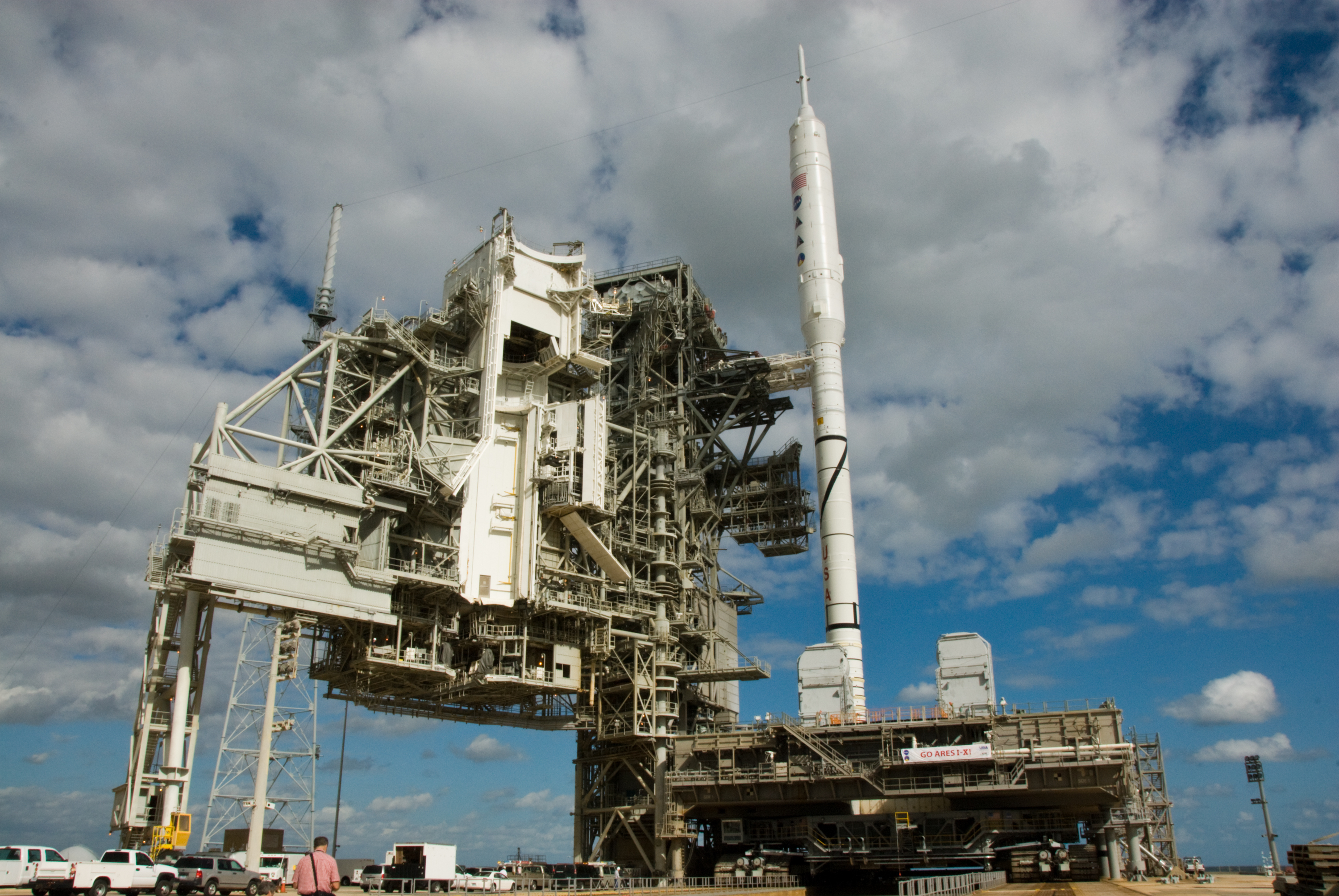 The towering 327-foot-tall Ares I-X rocket, newly arrived on Launch Pad 39B at NASA's Kennedy Space Center in Florida, confidently greats the day following its seven-hour early-morning trek. The test rocket left the Vehicle Assembly Building at 1:39 a.m. EDT on its 4.2-mile trek to the pad and was "hard down" on the pad’s pedestals at 9:17 a.m. The transfer of the pad from the Space Shuttle Program to the Constellation Program took place May 31. Modifications made to the pad include the removal of shuttle unique subsystems, such as the orbiter access arm and a section of the gaseous oxygen vent arm, along with the installation of three 600-foot lightning towers, access platforms, environmental control systems and a vehicle stabilization system. Part of the Constellation Program, the Ares I-X is the test vehicle for the Ares I. The Ares I-X flight test is targeted for Oct. 27. For information on the Ares I-X vehicle and flight test, visit